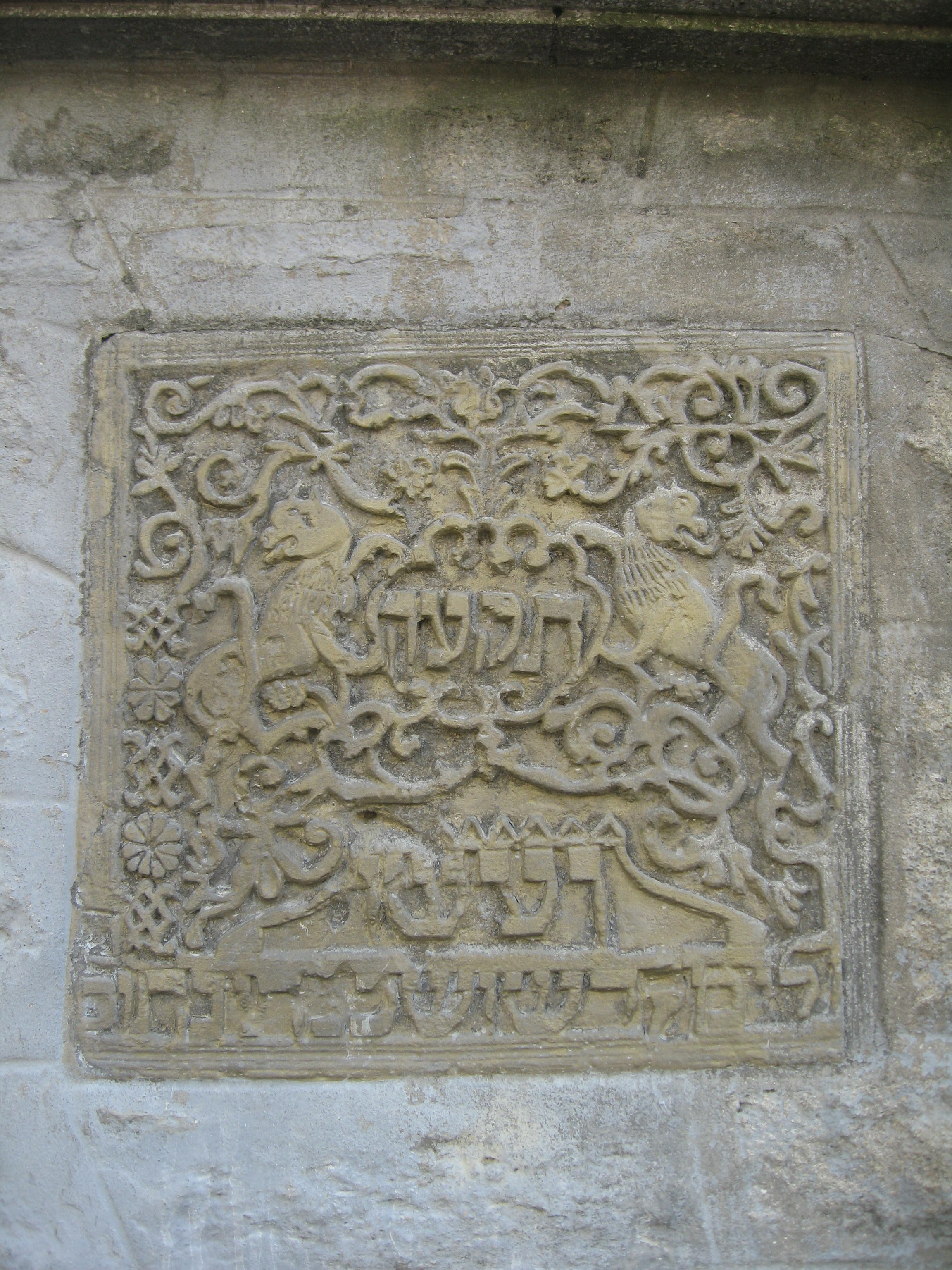 Sinagoga Mare din Harlau